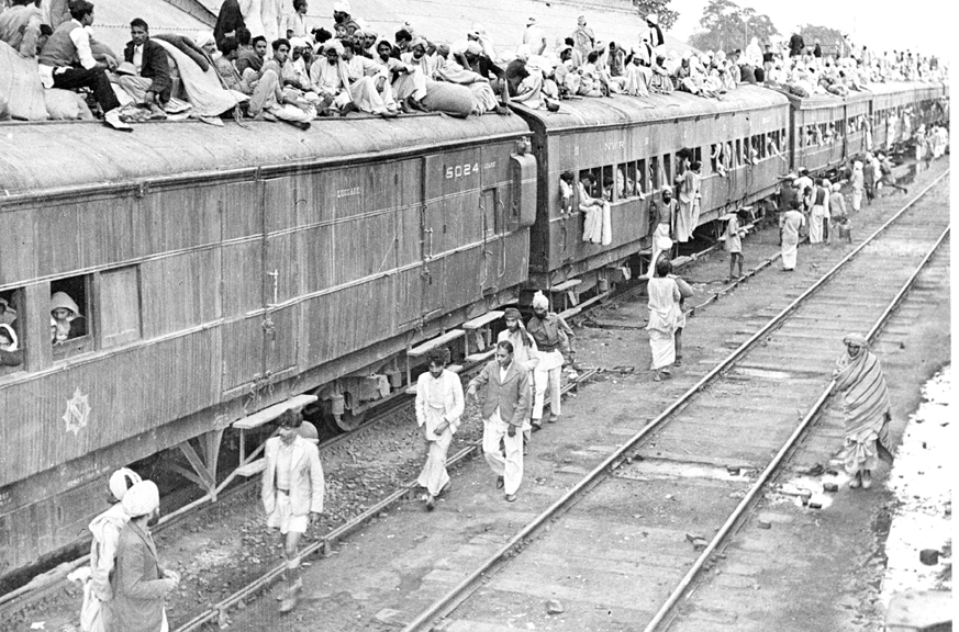 APO/February,54,A31dA refugee special train at Ambala Station. The carriages are full and the refugees seek room on top.Photo Number:-37164